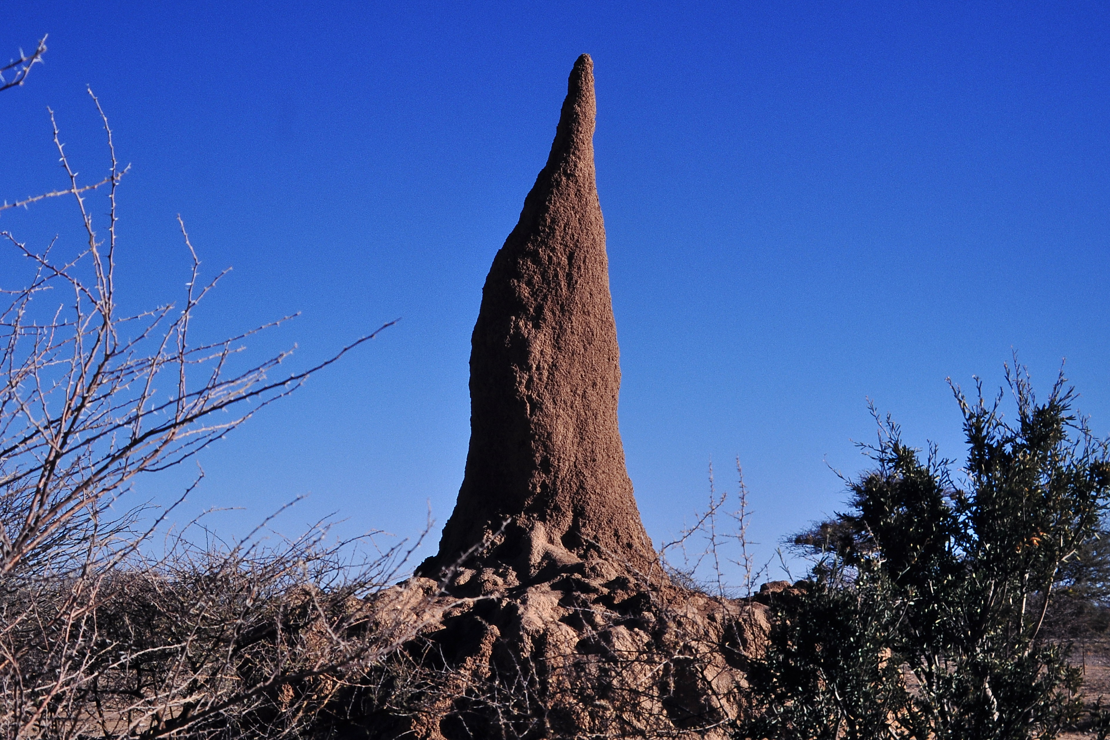 Termite's nest in Namibia